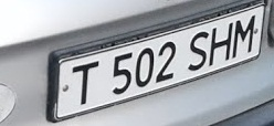 Номерной знак Казахстана образца 1993 г.